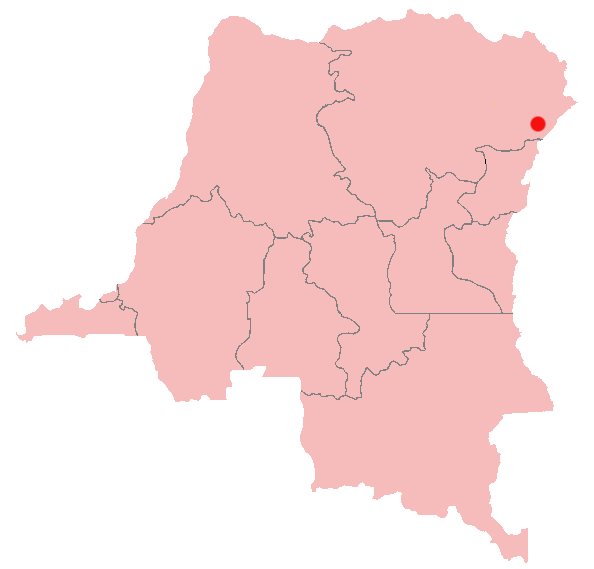 Bunia, Democratic Republic of the Congo Location Map; created with the GIMP. Made by User:Acntx.